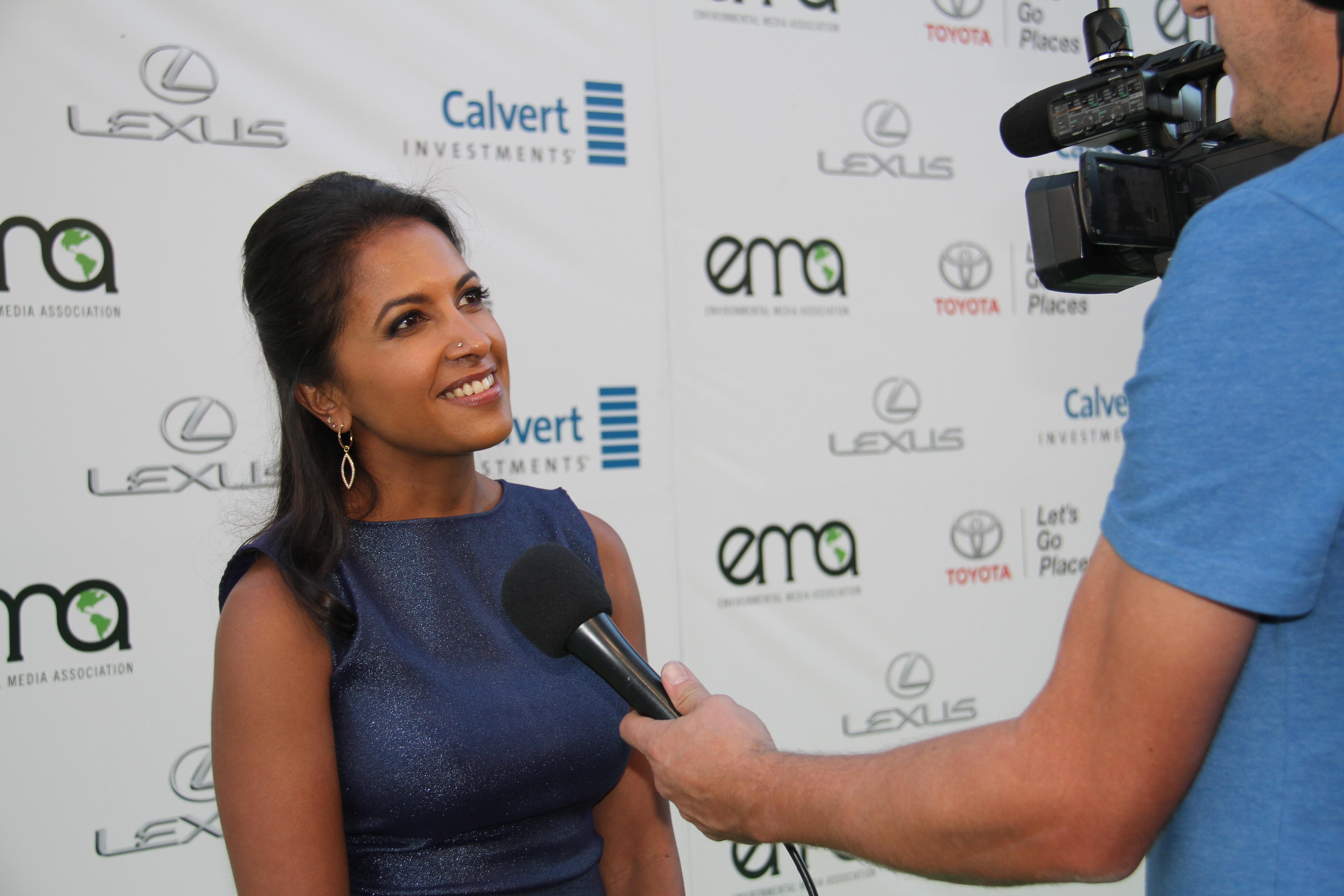 Shalini Kantayya being interviewed about her film Catching the Sun at the Environmental Media Awards in Los Angeles, 2016.